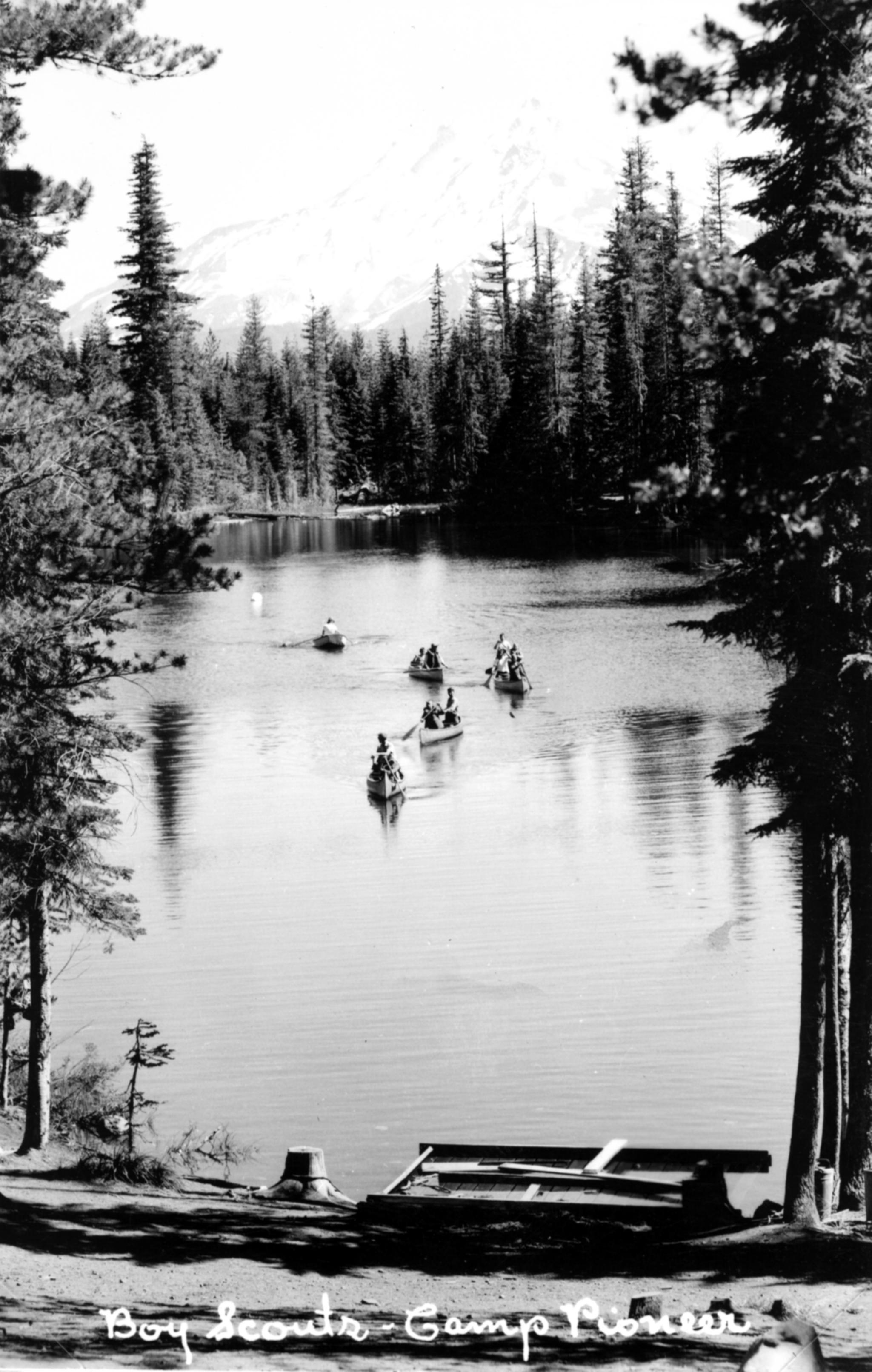 Camp Pioneer (Oregon), from the Gerald W. Williams Collection, 1855-2007